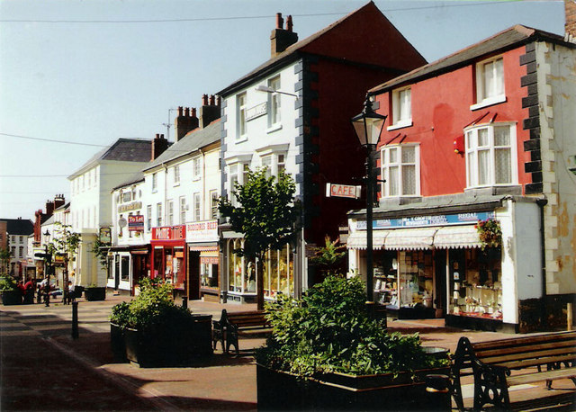 Holywell High Street This picture of the North-Eastern side of Holywell High Street(opposite the town clock) shows the town centre following refurbishment